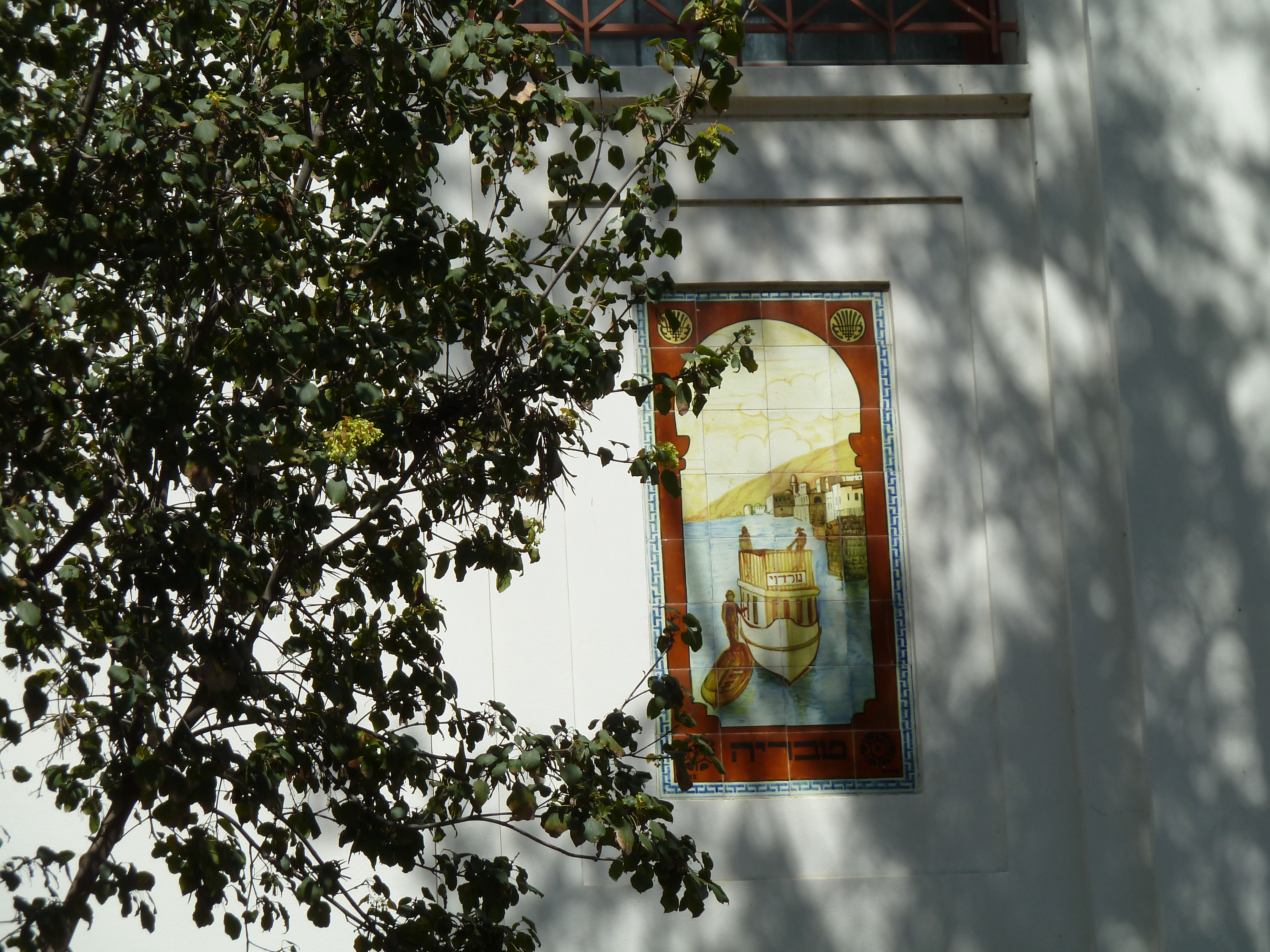 Ehad Haam School, Ehad Haam street, Tel Aviv